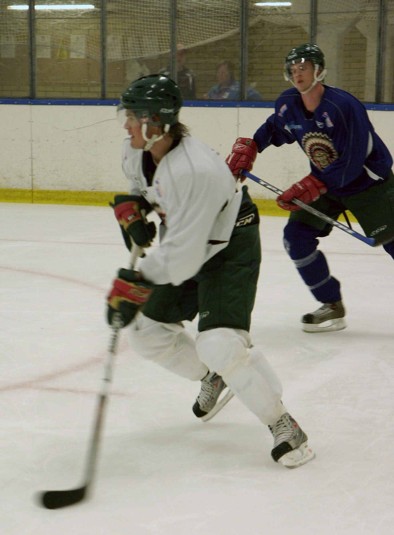 Ice hockey player Karl Fabricuis at ice training in Wallenstamshallen, Scandinavium, Gothenburg, Sweden